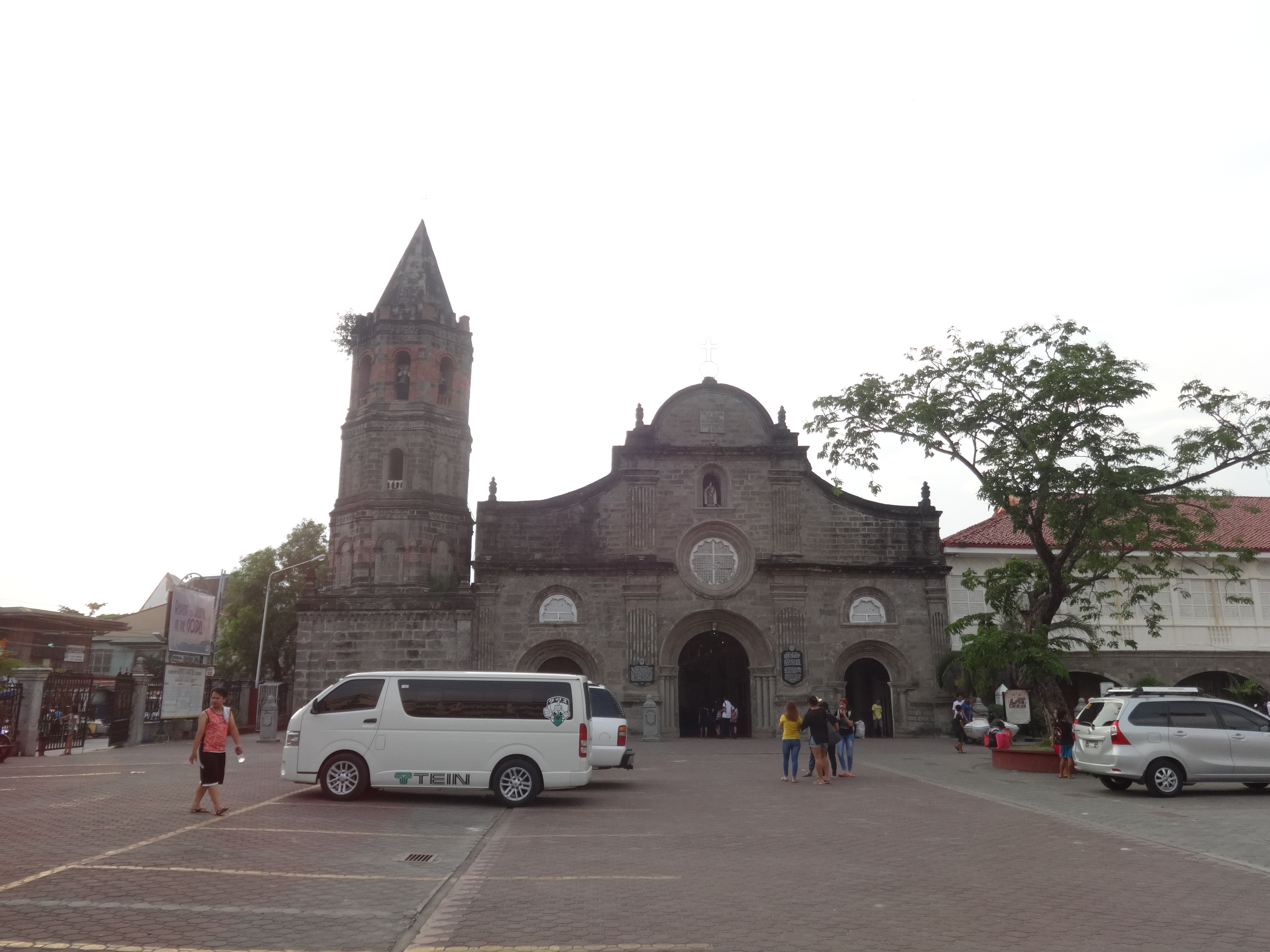 Our Lady of Mount Carmel Parish (Barasoain Church) at Paseo Del Congreso, Malolos City, Bulacan. The church is historically important for being the site of Malolos Congress in 1898. The church is under the Roman Catholic Diocese of Malolos, Archdiocese of Manila.